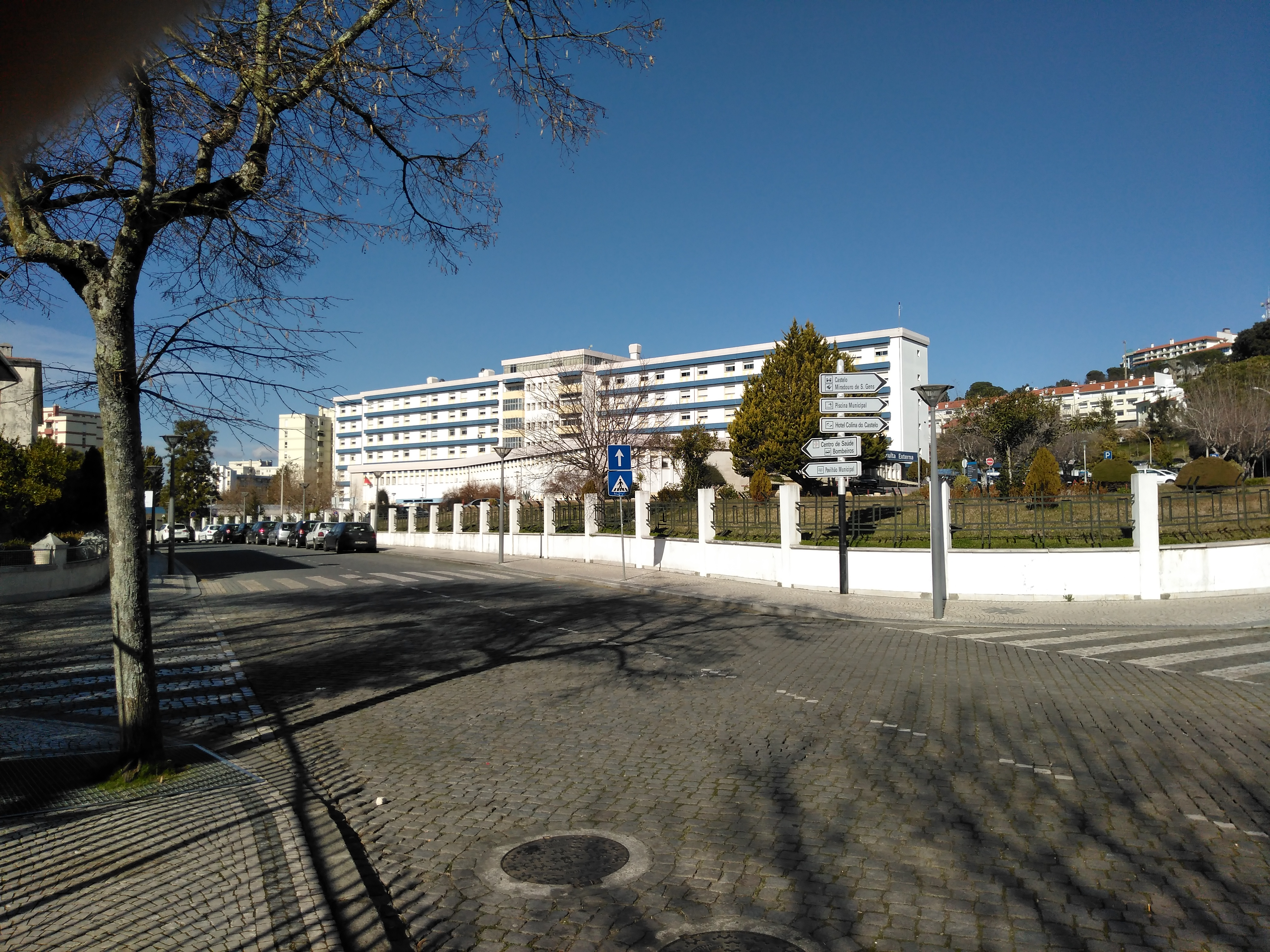 Hospital Amato Lusitano